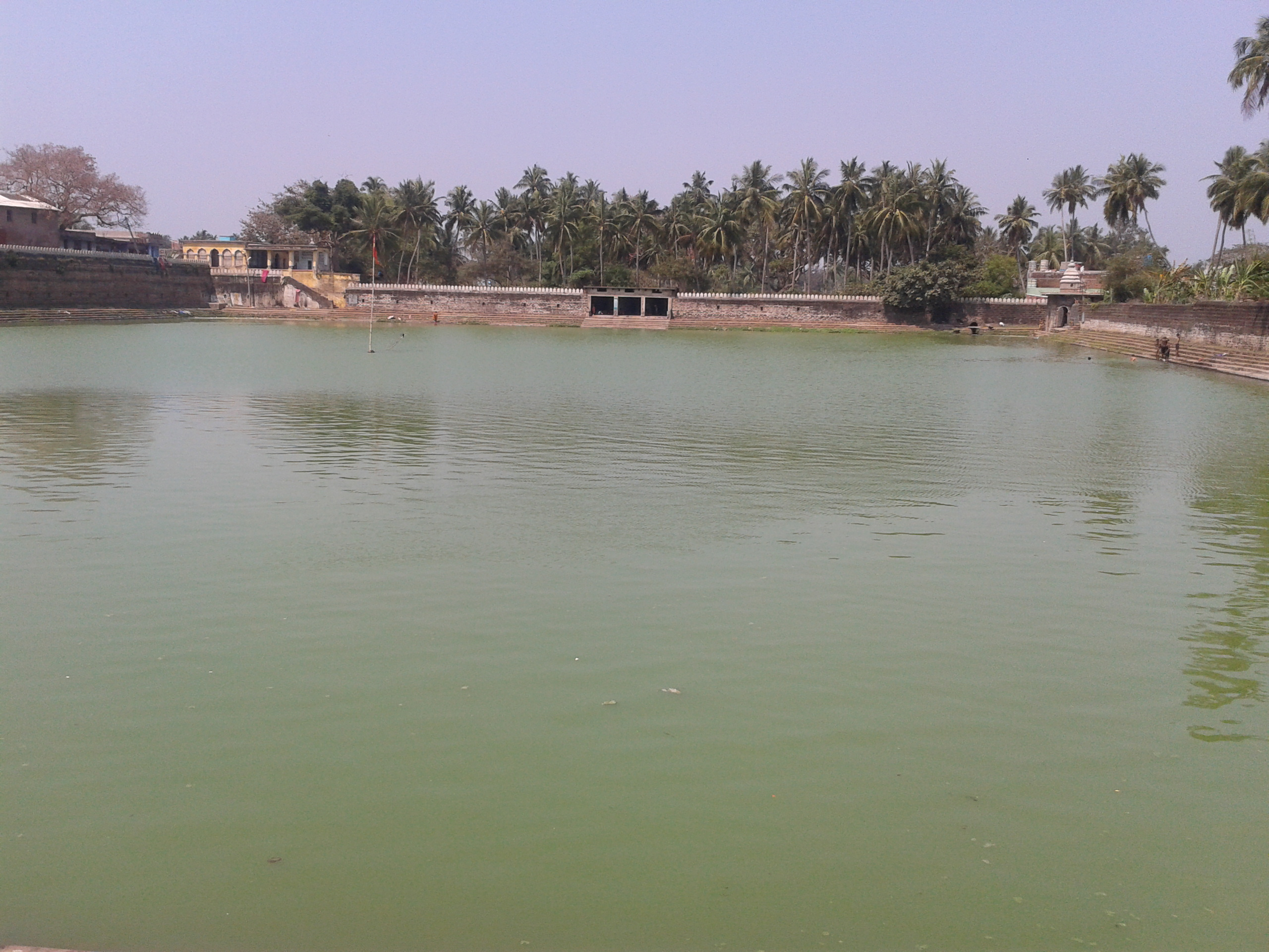 Markandeshwar Tank is a holy pilgrimage spot in the town of Puri, India